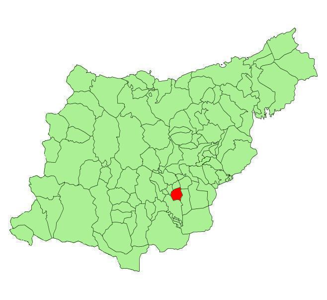 Gaintza municipality in the province of Guipuzcoa